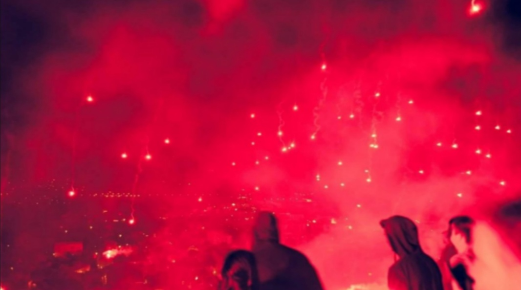 NK Junak Sinj 100 year celebration 2